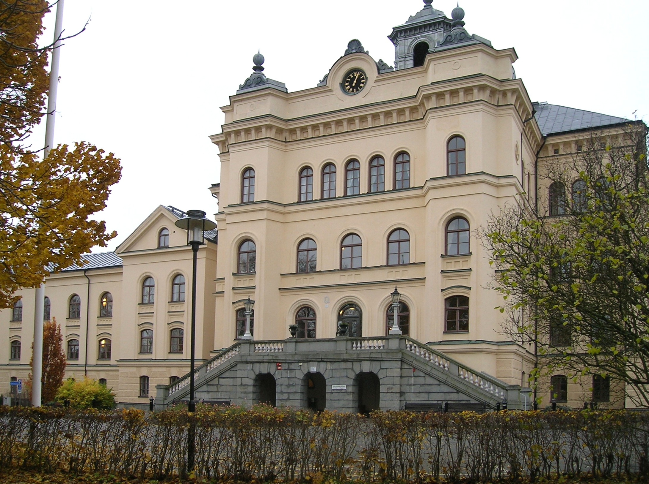 Konradsberg, from the beginning a mental hospital, now the main building of the lärarhögskolan, Marieberg, Stockholm municipality, Stockholm county, Sweden